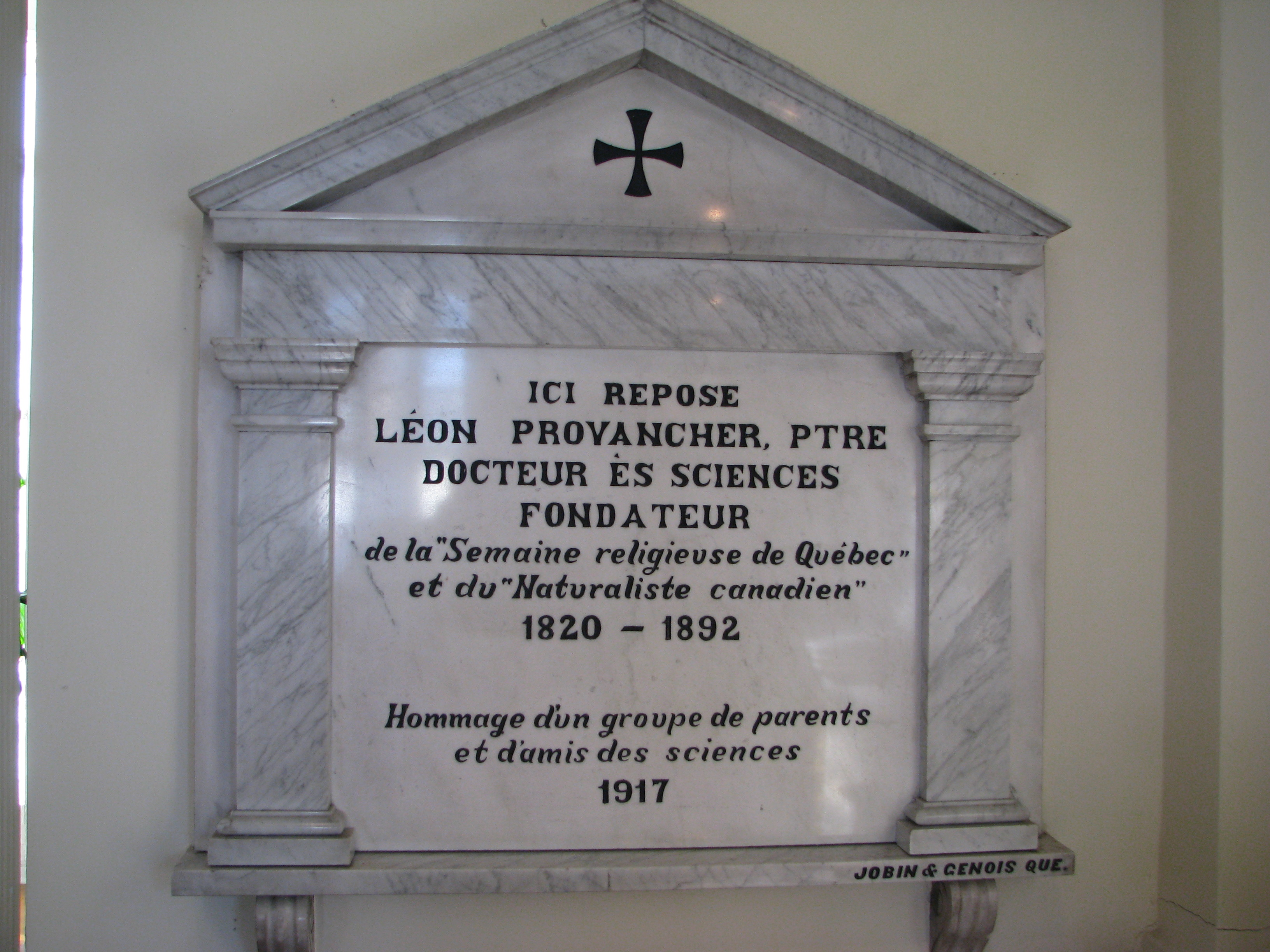 Funeral monument (1917) for Father Léon Provancher, Canadian priest and naturalist, situated inside St. Felix church, Cap-Rouge, Quebec City, Canada